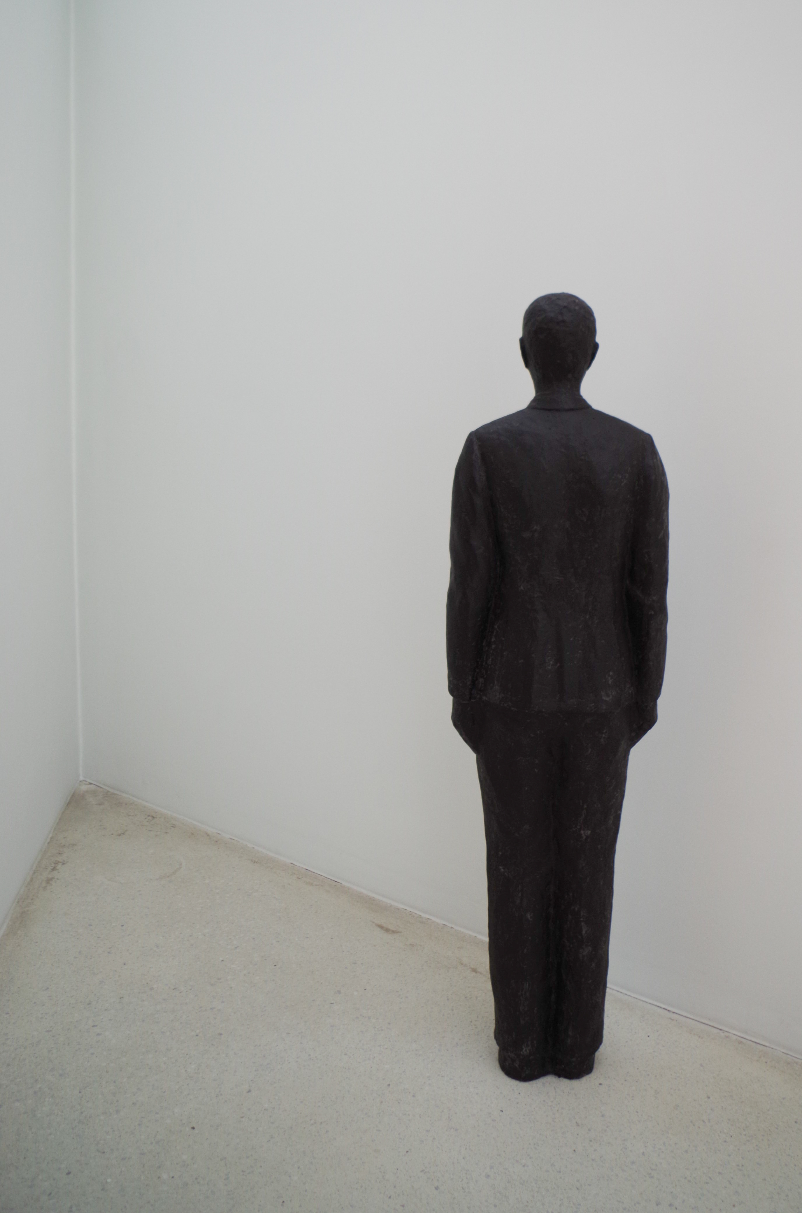 This is a file created at the museum: Kazerne Dossin Memorial in Mechelen